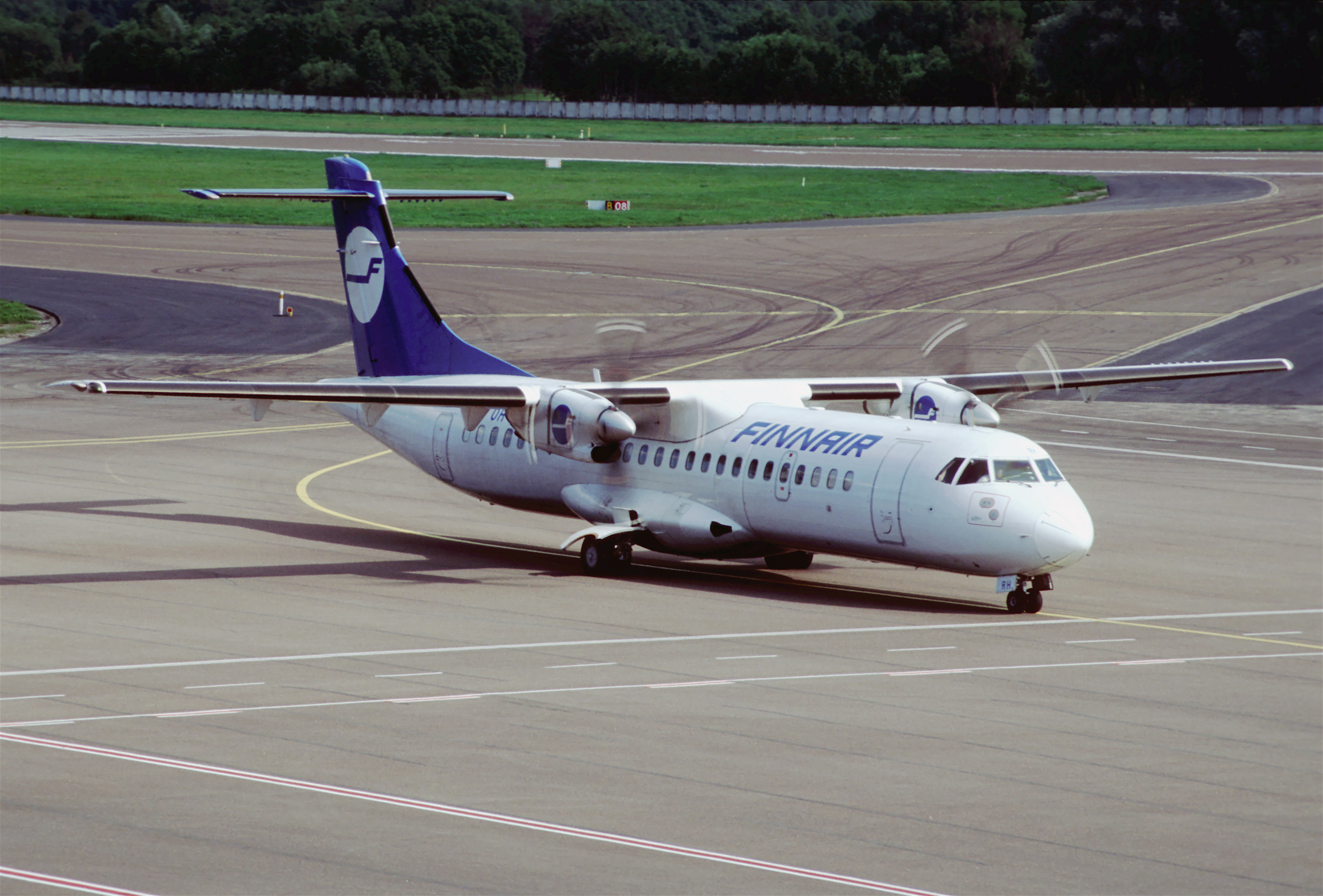 ATR 72-201 aircraft (OH-KRH) of Finnair at Tallinn Airport in July 2004.